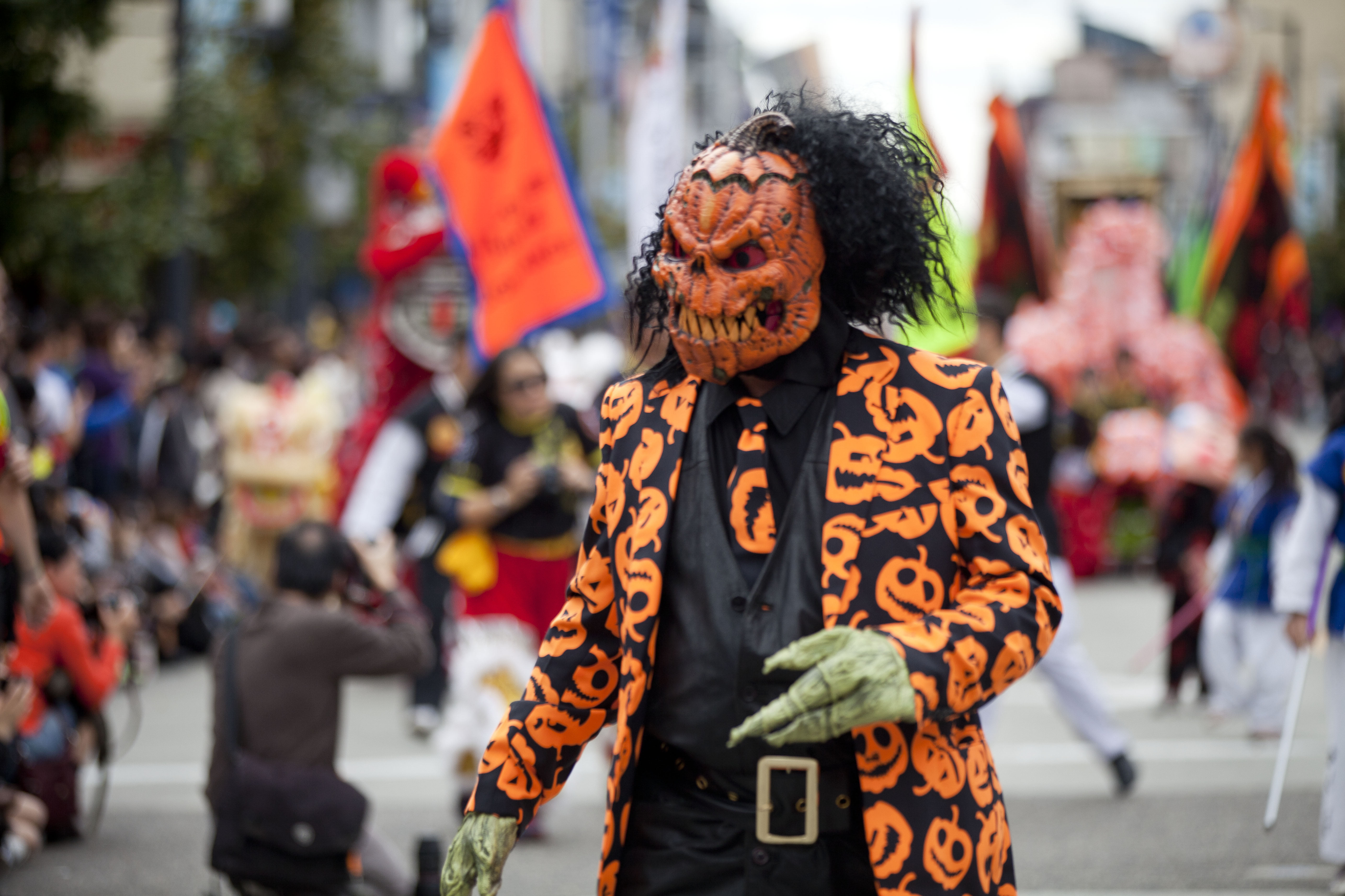 Halloween Parade